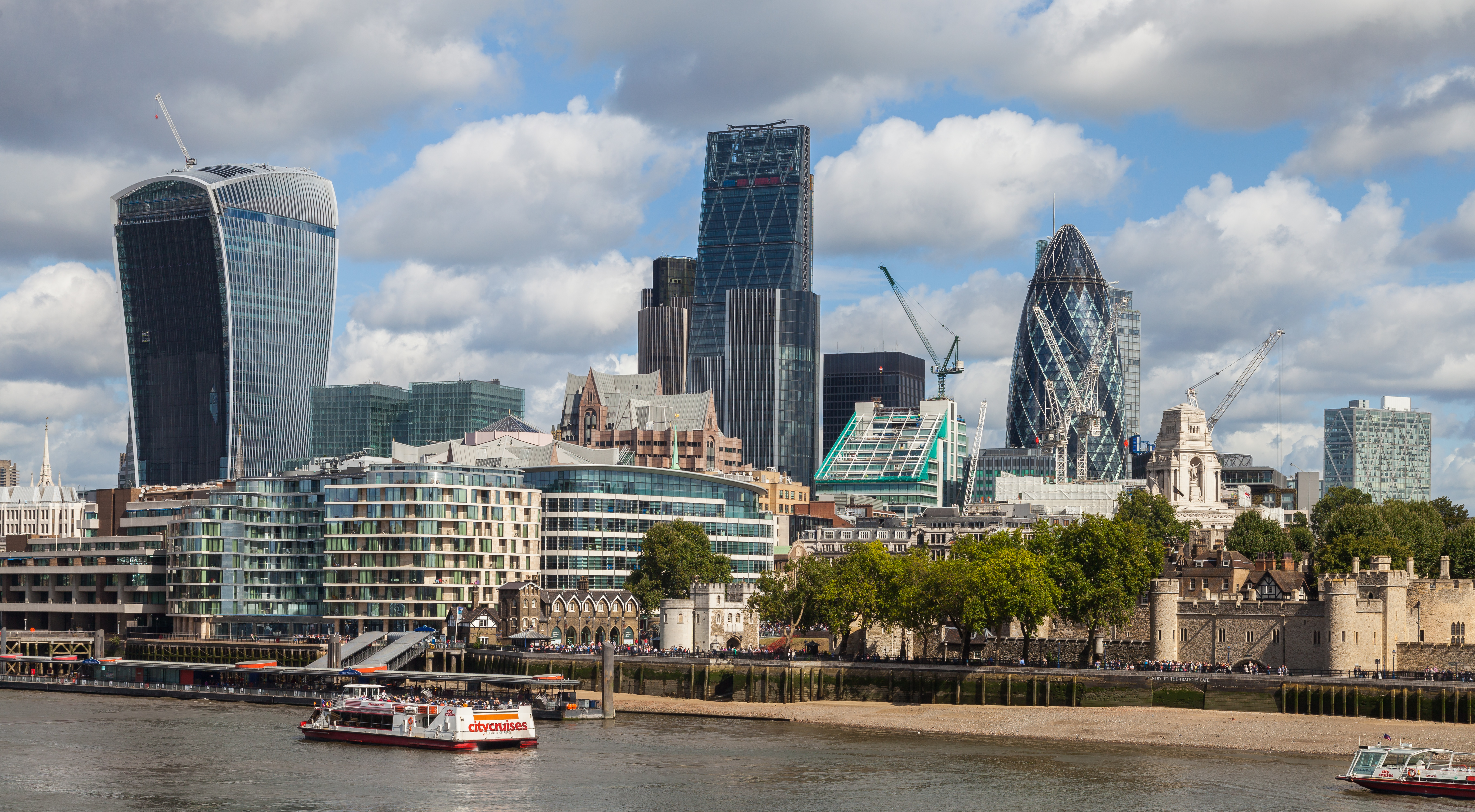 Walkie-Talkie, Leadenhall building and Gherkin, London, England